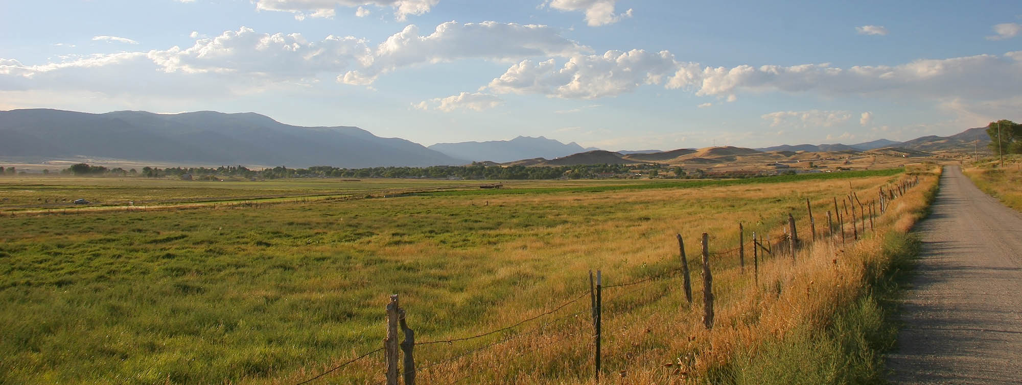 Panorama of Moroni, Utah taken from the southeast in August, 2006.